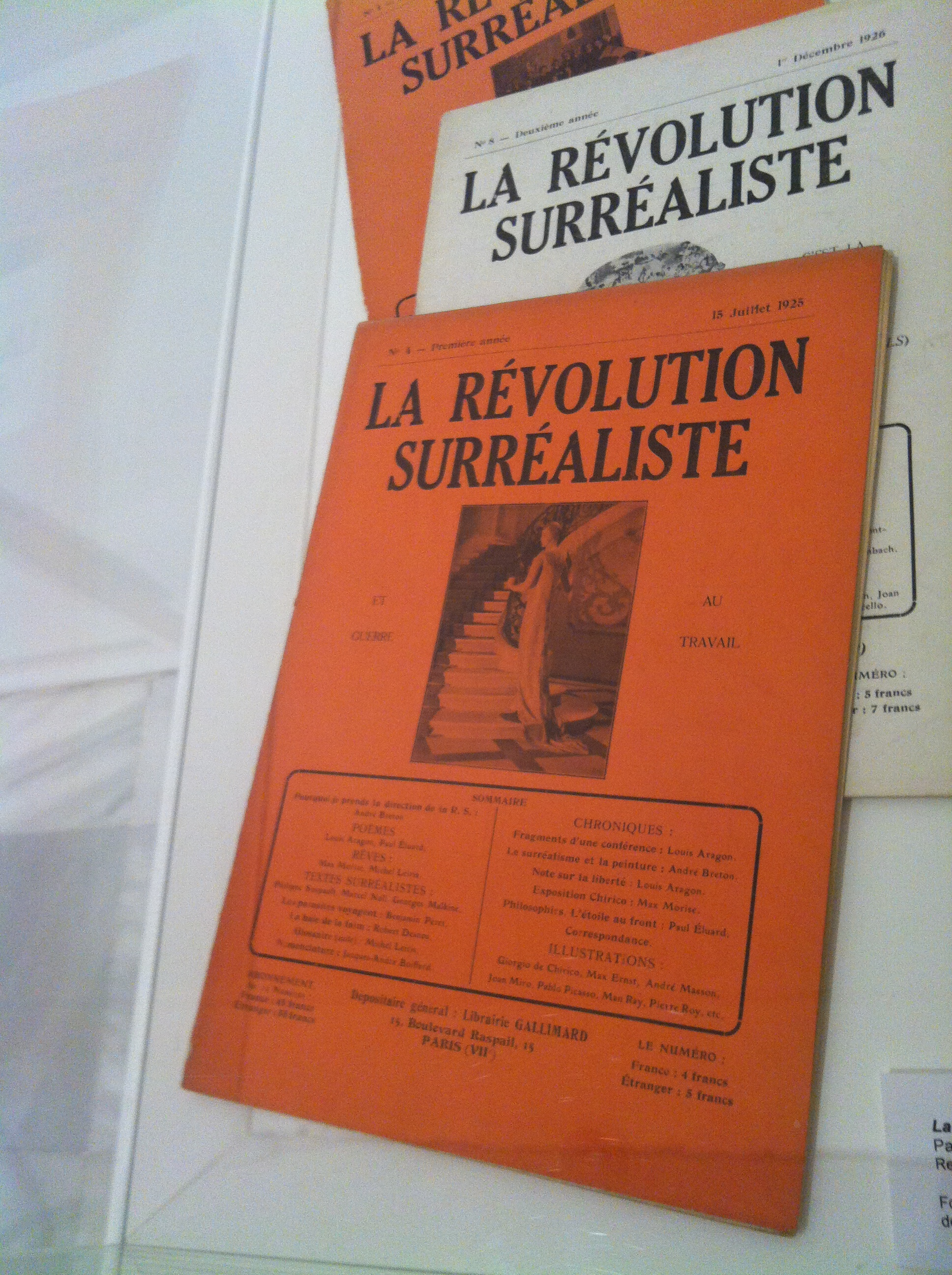 Interior views of Museo Reina Sofia (Madrid, Spain).